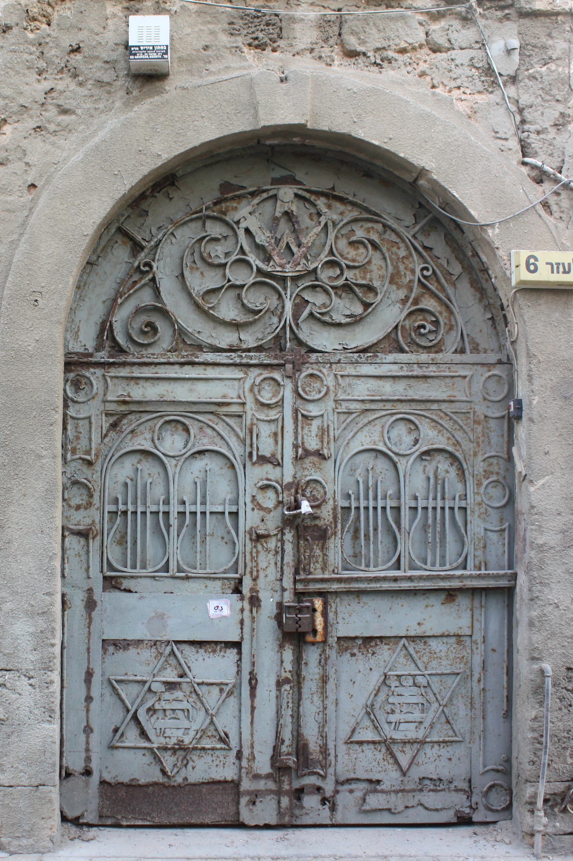 Door of Shaarei Torah Yeshivah in Jaffa